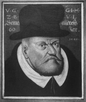 Julius, Duke of Brunswick-Lüneburg (1528 - 1589) The inscription reads: "V. G. G. I. H. Z. B. V. L. Seines alldtesz 60 Jar." — the first part is abbreviated for: Von Gottes Gnaden Iulius Herzog zu Braunschweig und Lüneburg. Translated from